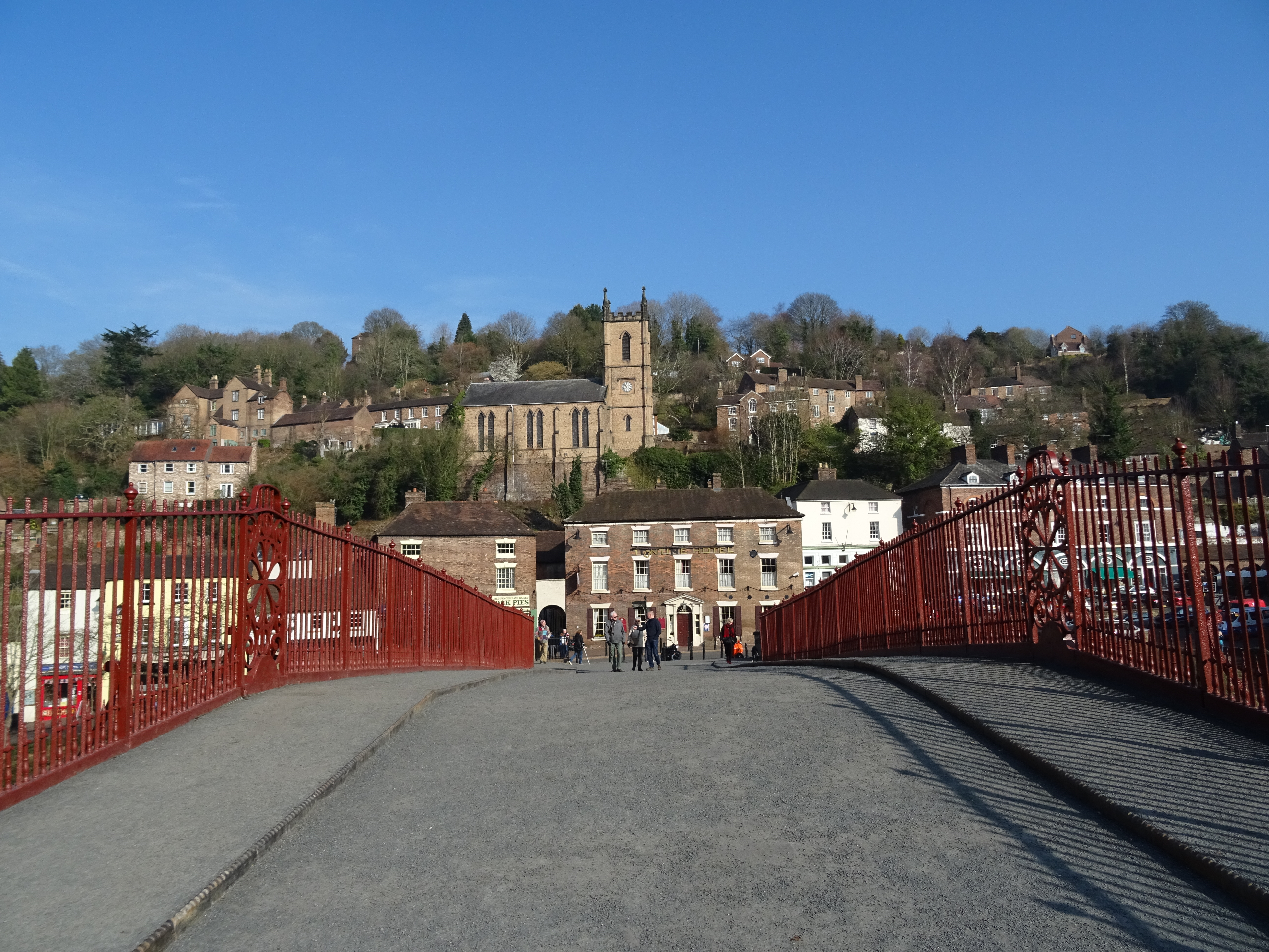 The roadway of the Iron Bridge looking north in February 2019. Seen here is the dark red paint added in the 2018 restoration.